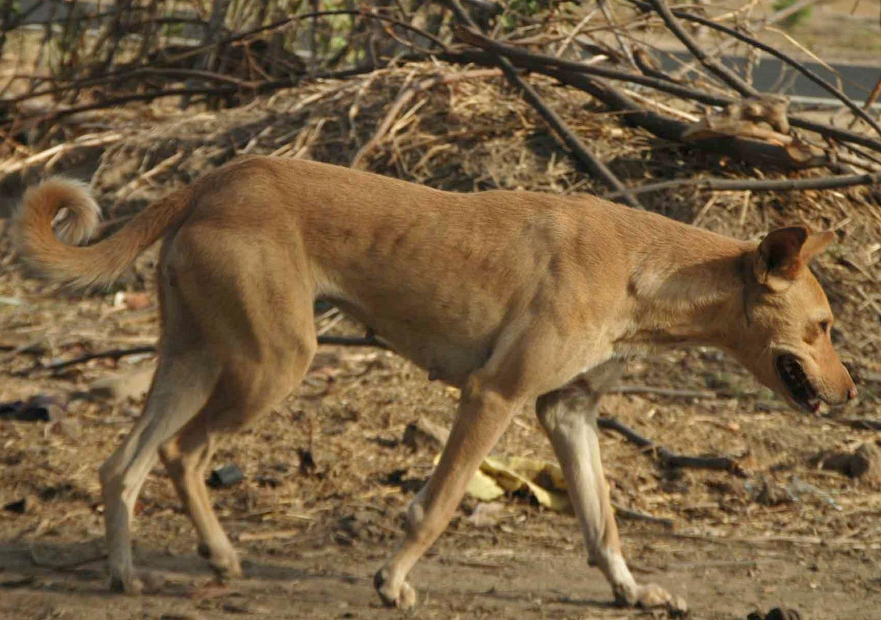 "INDog/Indian Pariah Dog, photographed in a village in Central India, June 2008. The dog belonged to a farmer."